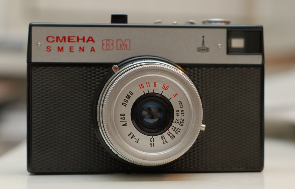 Smena 8M image made by Jonnny.